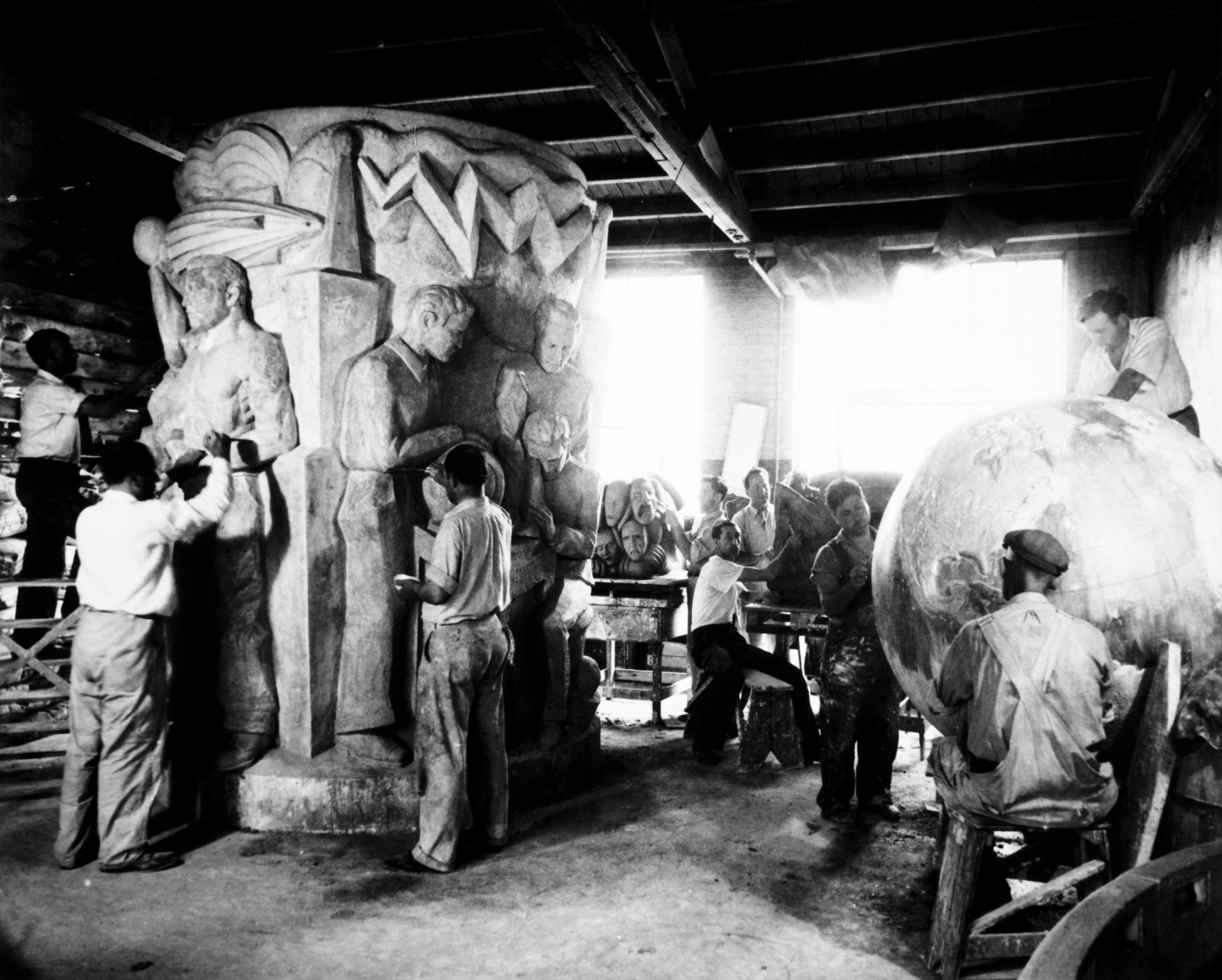 (null)